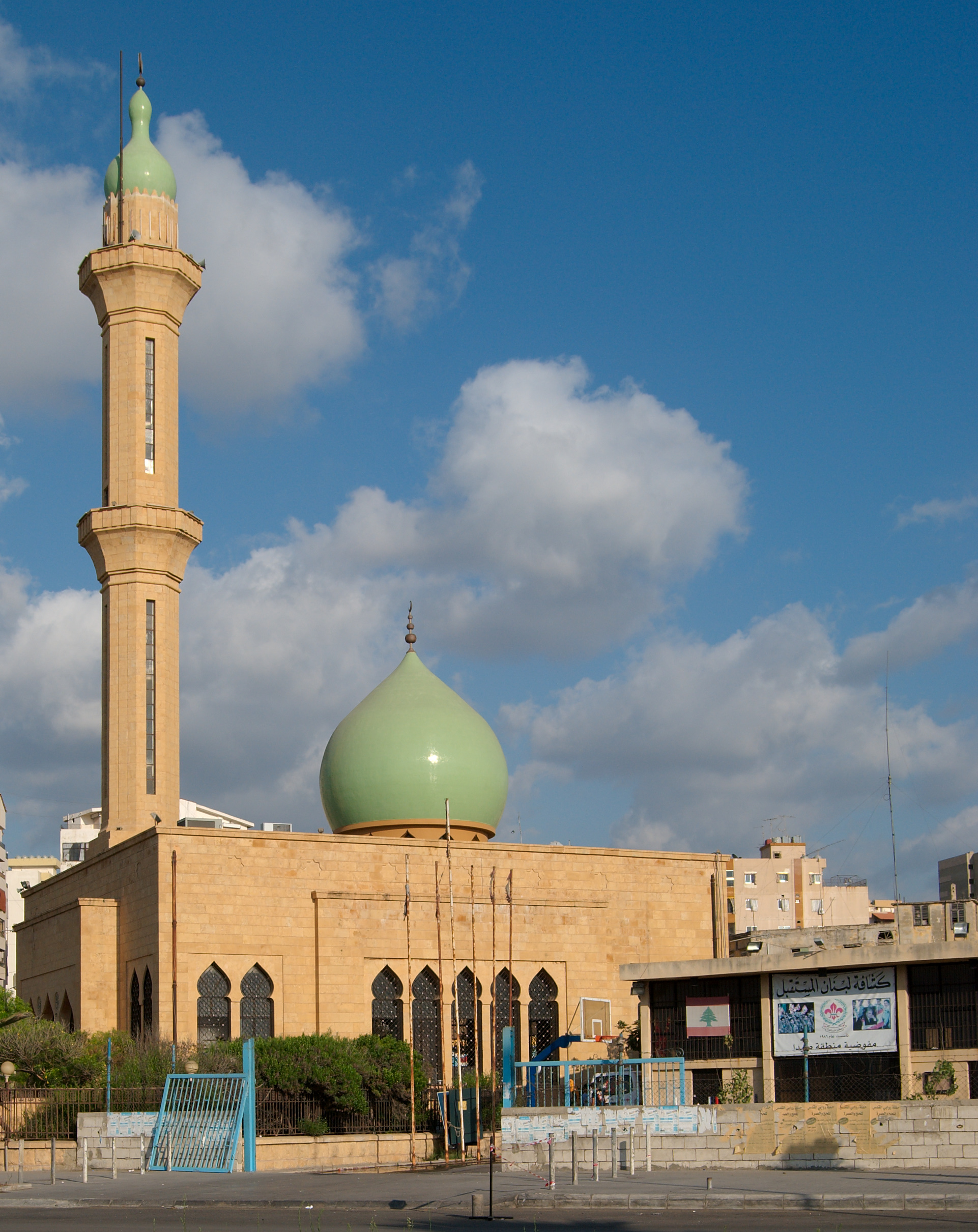 A Mosque near the seafront in Saida , Lebanon....unfortunately I forgot which one